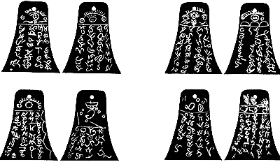 Front and back of four of the six Kinderhook plates are shown in these facsimiles (rough copies of even earlier published facsimiles), which appeared in 1909 in History of the Church, vol. 5, pp. 374–75.